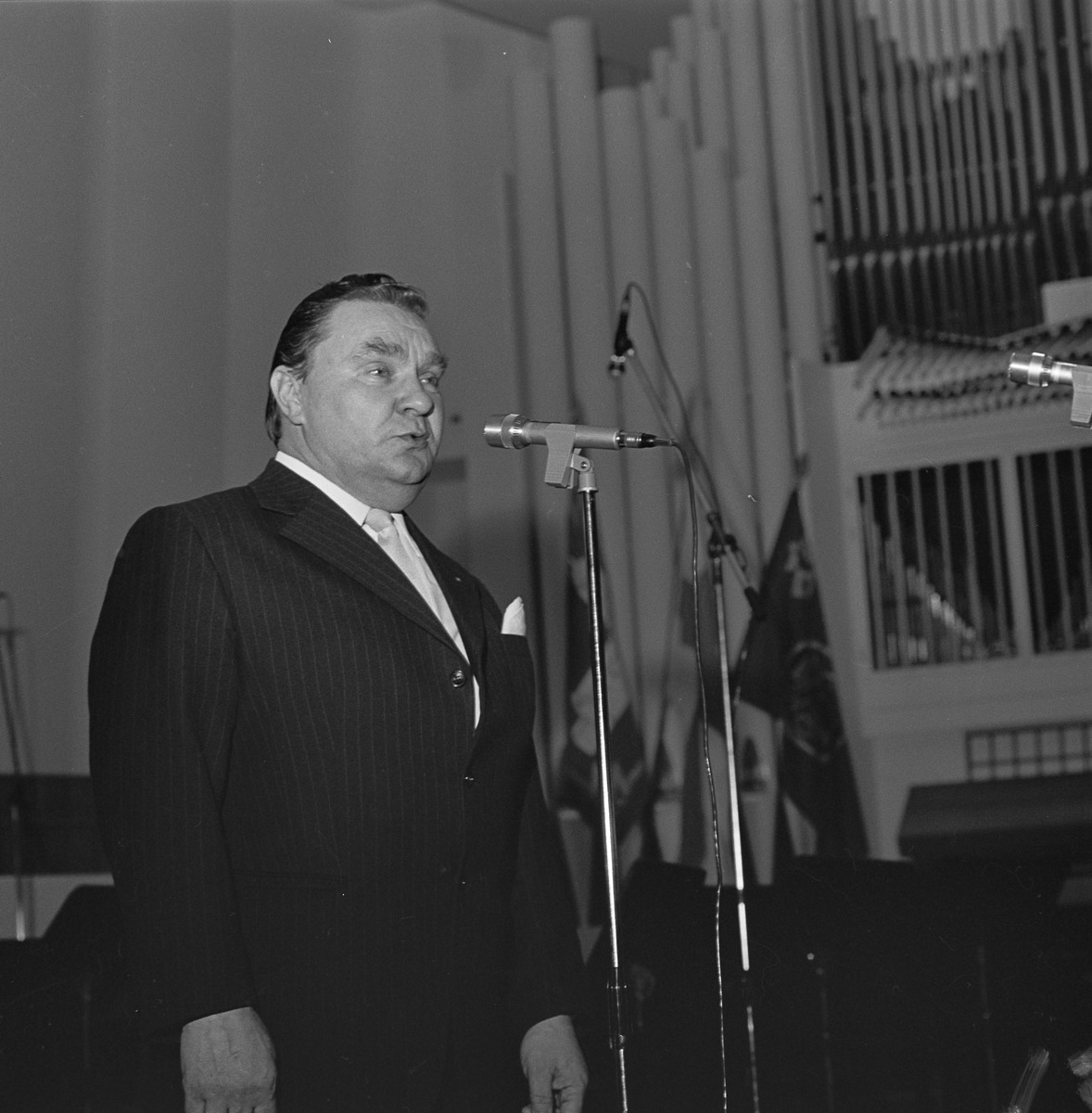 Photograph of the Finnish vocalist Auvo Nuotio (1917–1985).